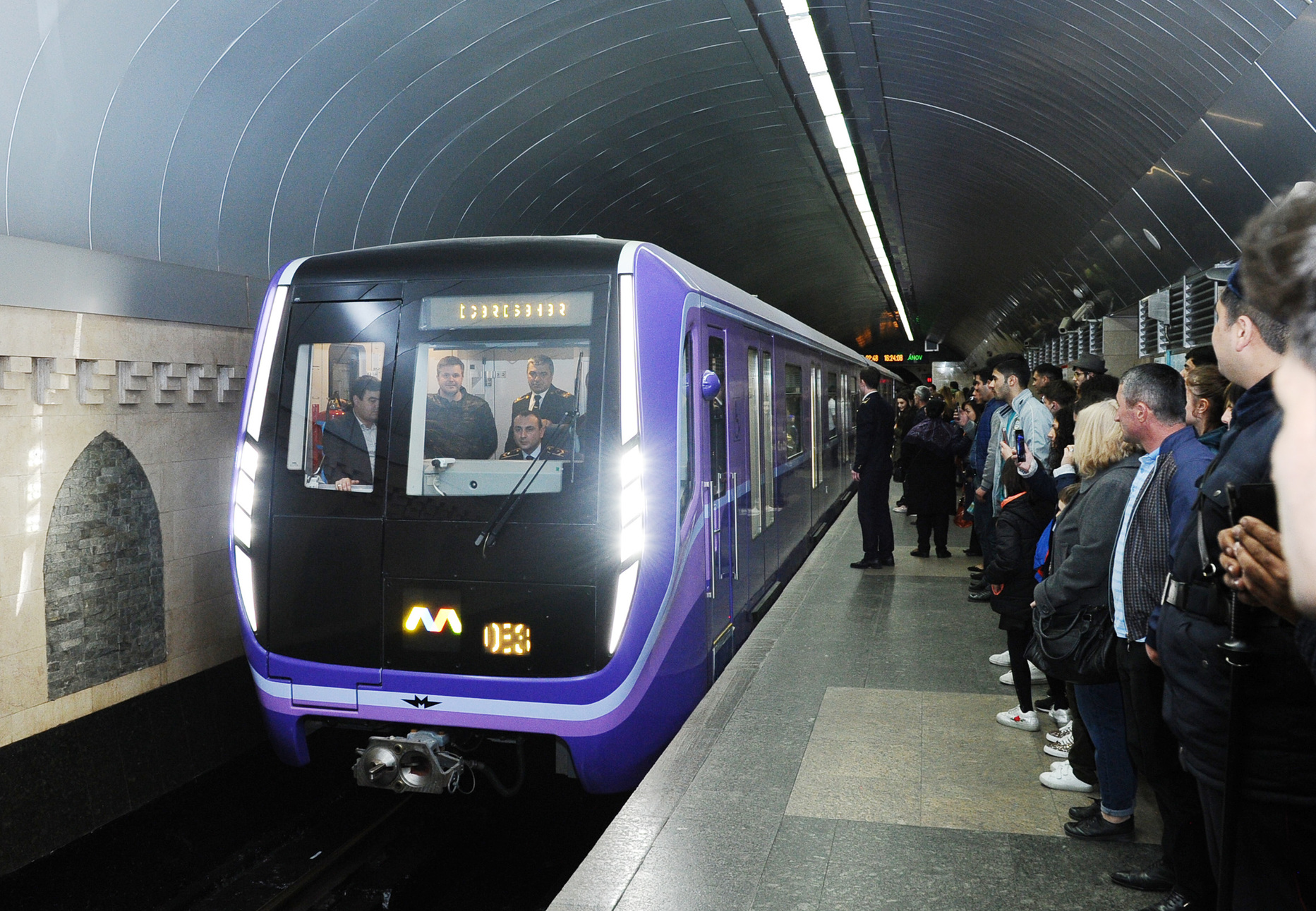 Subway electric train 81-765/766 «Moscow» № 0016—0020 arrives to Icheri Sheher station of Baku Metro